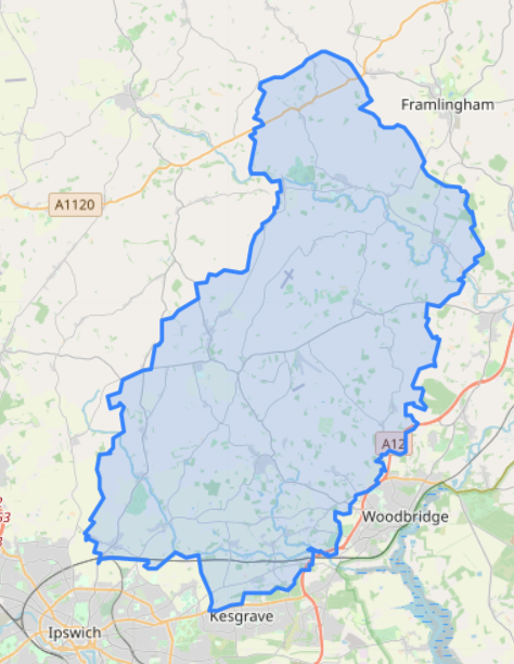 Open Street Map with area shaded blue for Carlford Electoral Division, Suffolk This map of Suffolk was created from OpenStreetMap project data, collected by the community. This map may be incomplete, and may contain errors. Don't rely solely on it for navigation.